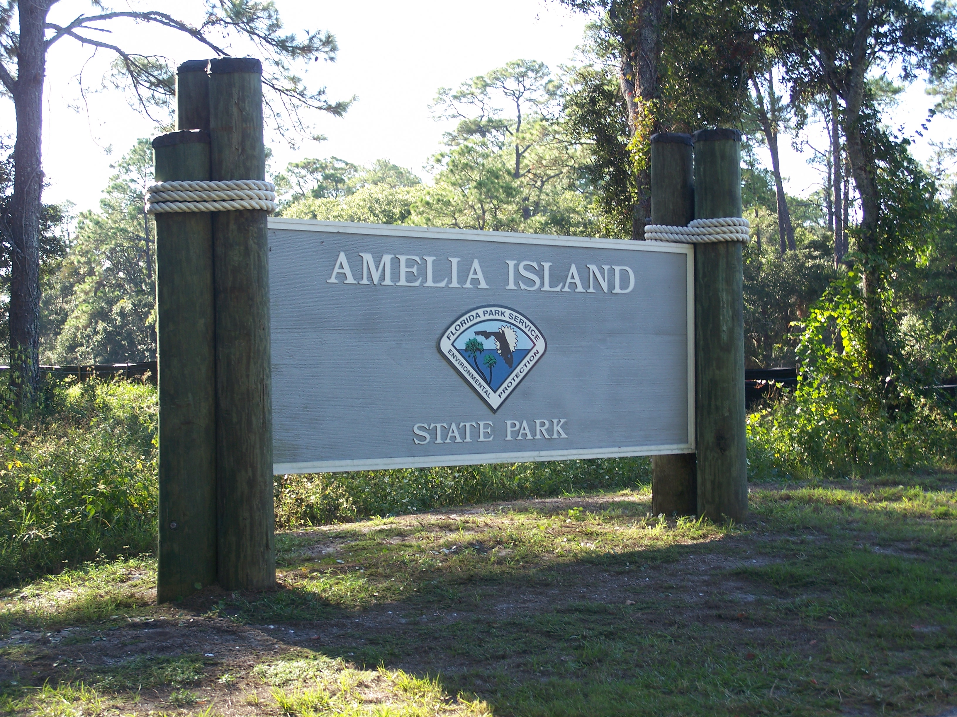 Amelia Island: Amelia Island State Park: Entrance